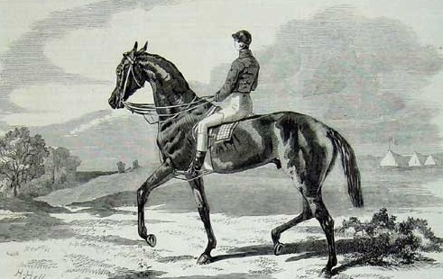 Etching of Beadsman, 1858 Derby winner. From Illustrated London News May 1858.